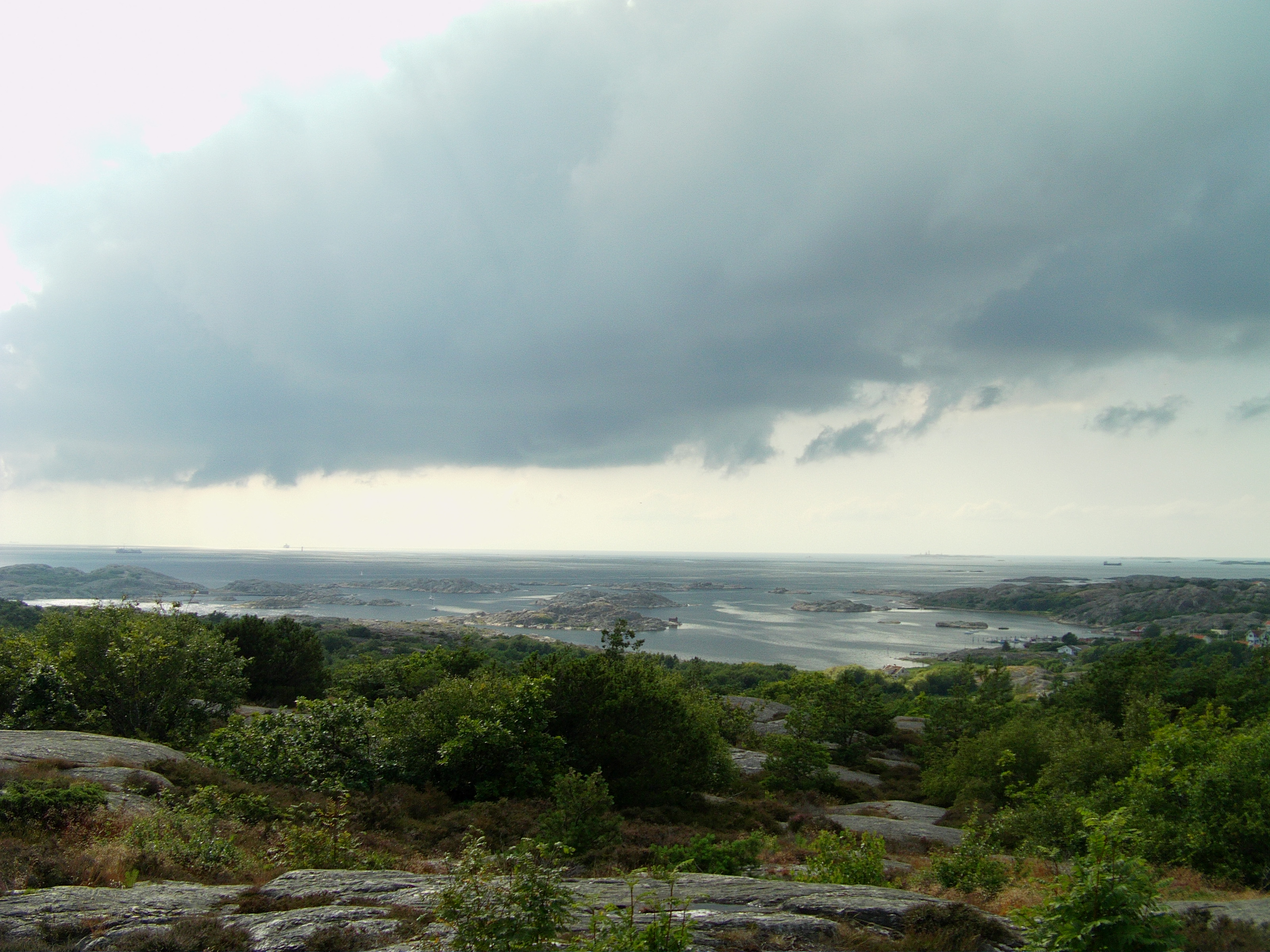 View of small part of the archipelago from the highest point of Donsö.